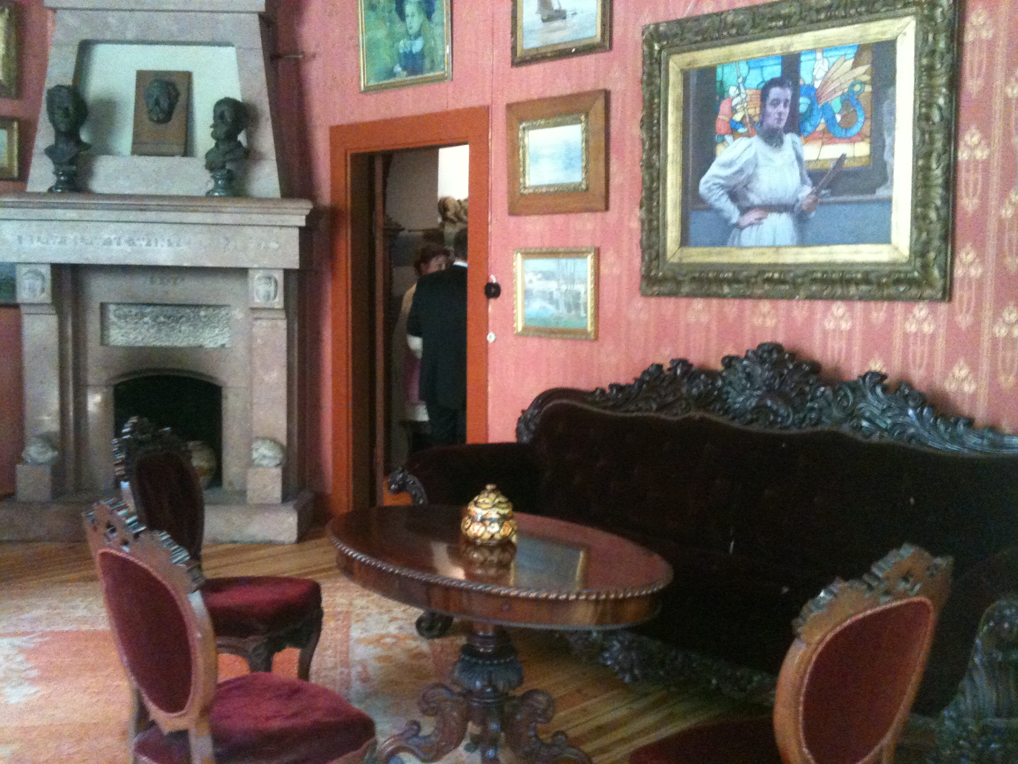 Brucebo artist´s home, room with William Blair Bruce´s portrait of his wife, Caroline Benedikt.